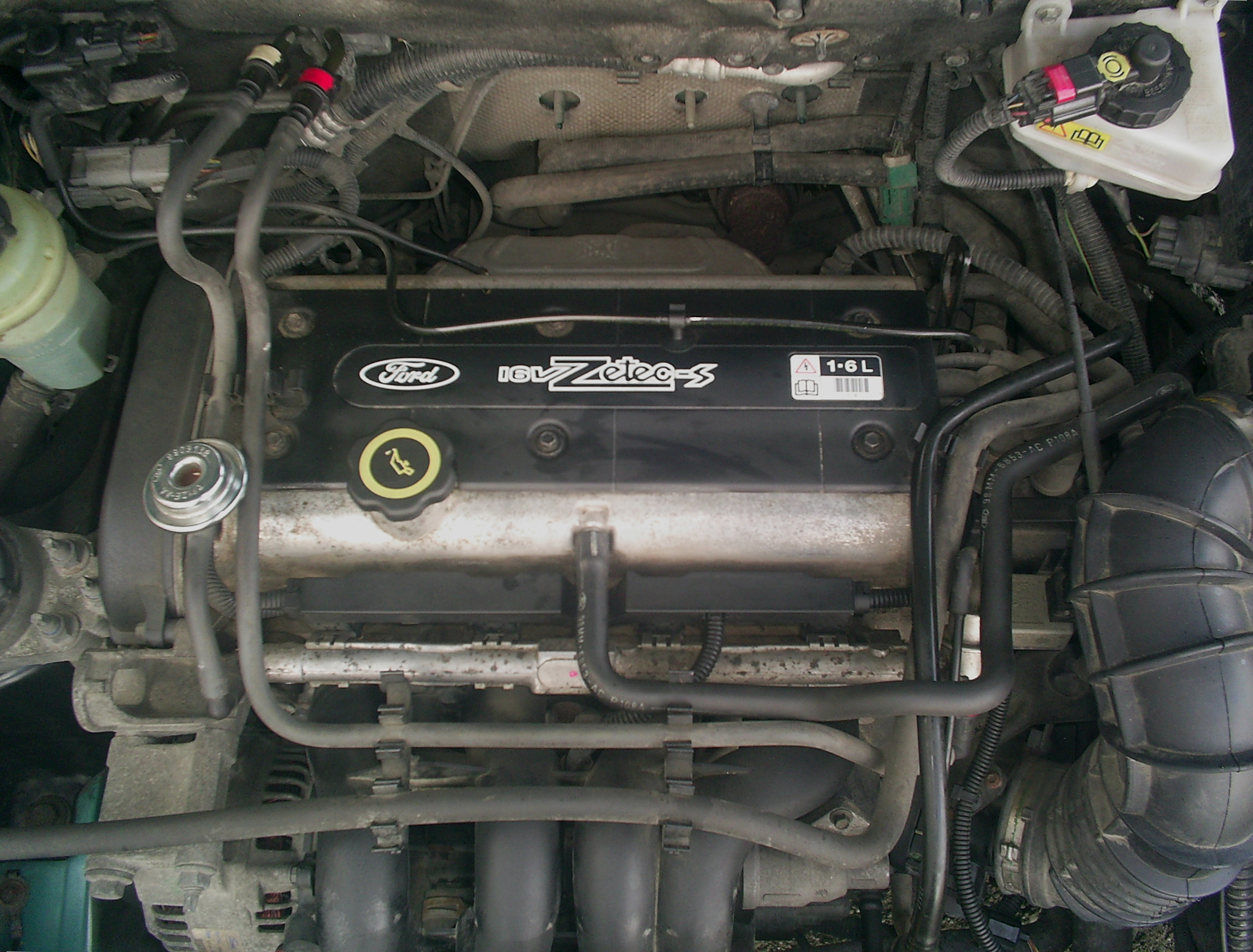 A stock 1999-model year 1.6 litre Ford Zetec-SE engine mounted in a first generation Ford Focus. Taken and released into the public domain by User:Kallemax.